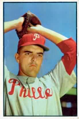 1953 Bowman Color baseball card of Curt Simmons of the Philadelphia Phillies #64. PD-not-renewed.